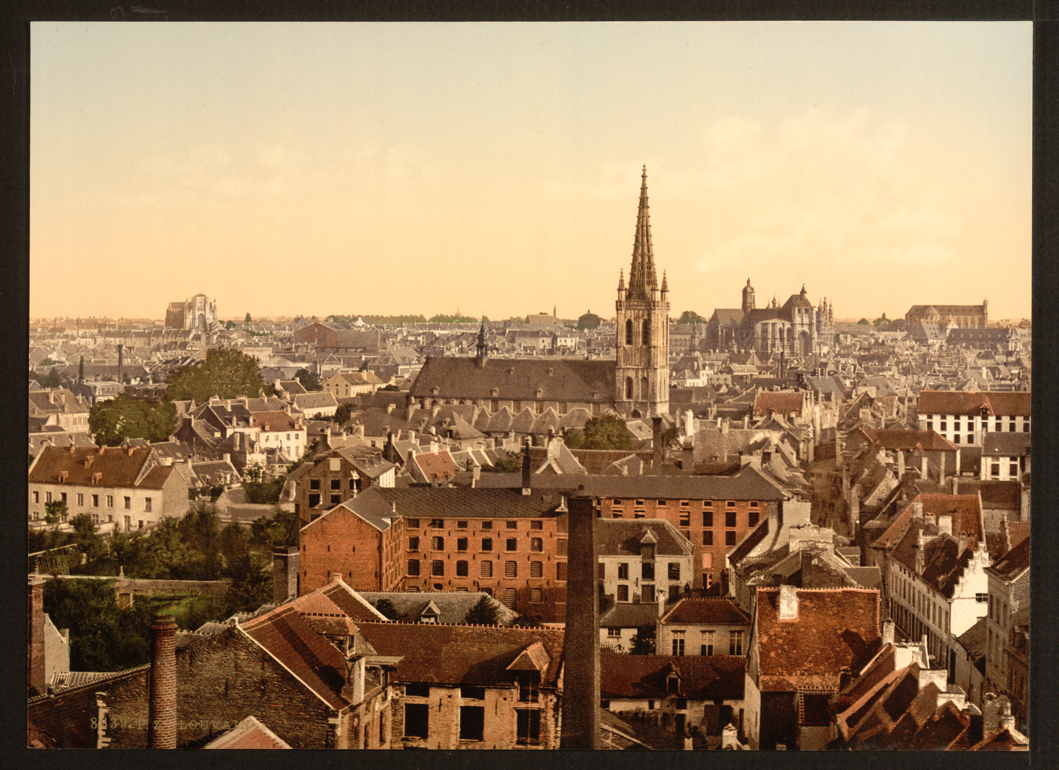 View on Leuven (Louvain), Belgium (between 1890-1900), with on the foreground the St. Gertrude Church